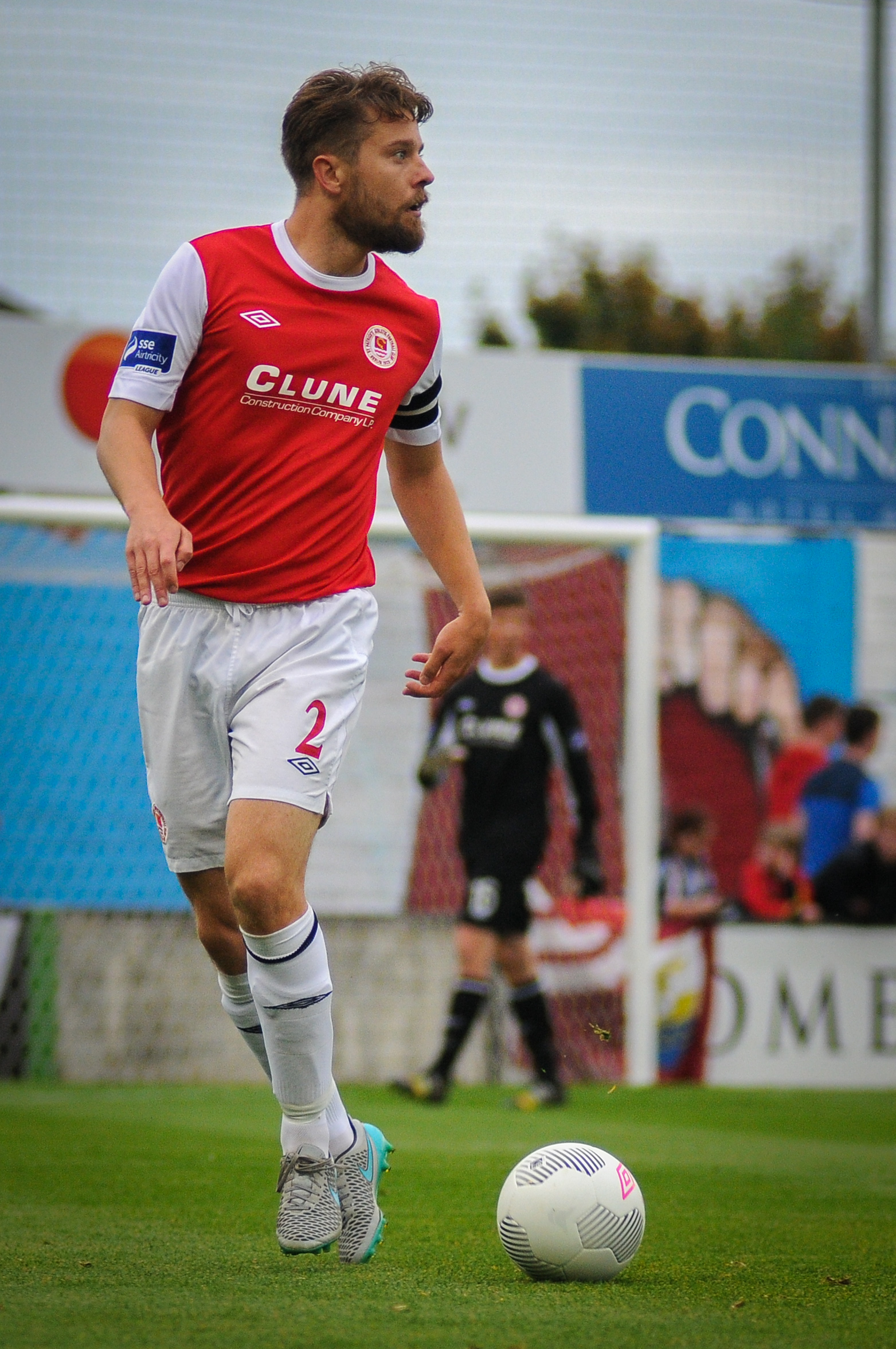 Ger O'Brien in action for St. Patrick's Athletic in the 2015 EA Sports Cup final at Eamonn Deacy Park, Galway